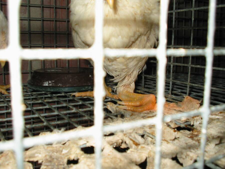 deformed limb of a laying hen in a breeding factory